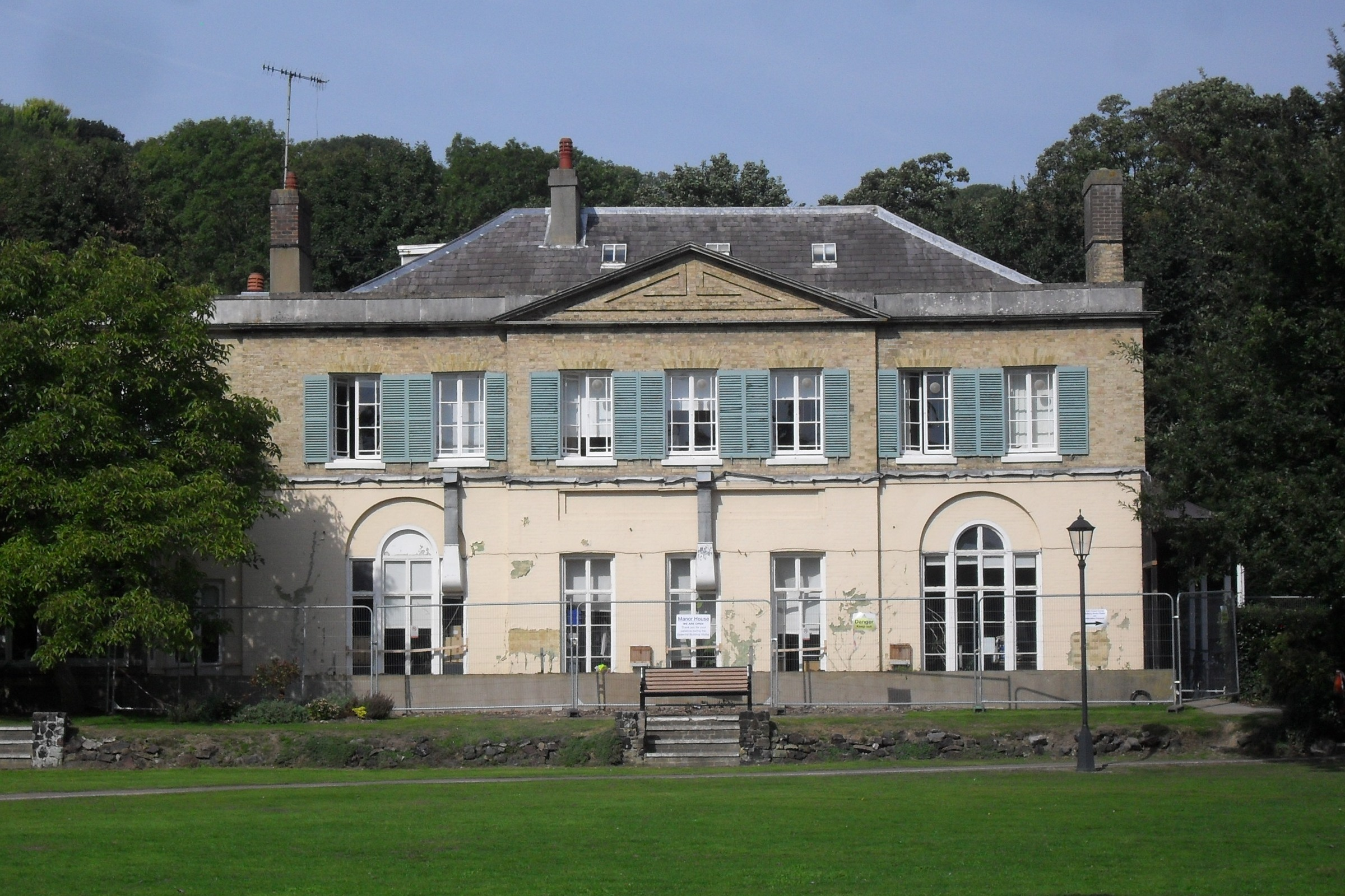 Moulsecoomb Place, Lewes Road, Moulsecoomb, City of Brighton and Hove, England. Listed at Grade II by English Heritage (NHLE Code 1381668)